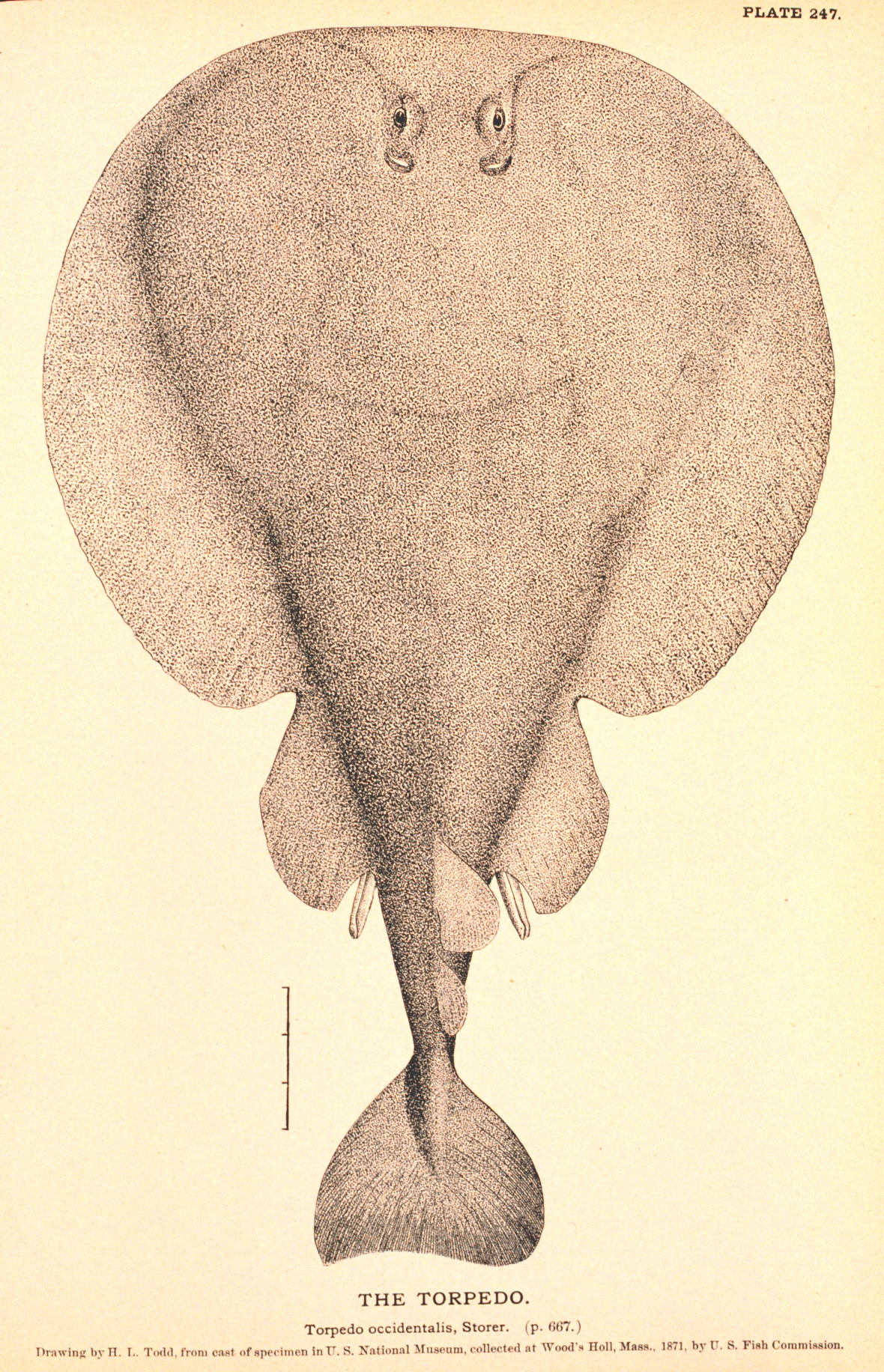 Torpedo occidentalis (=Torpedo nobiliana, Atlantic torpedo)